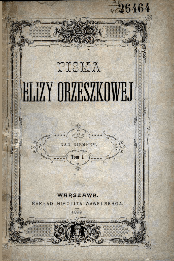 novel